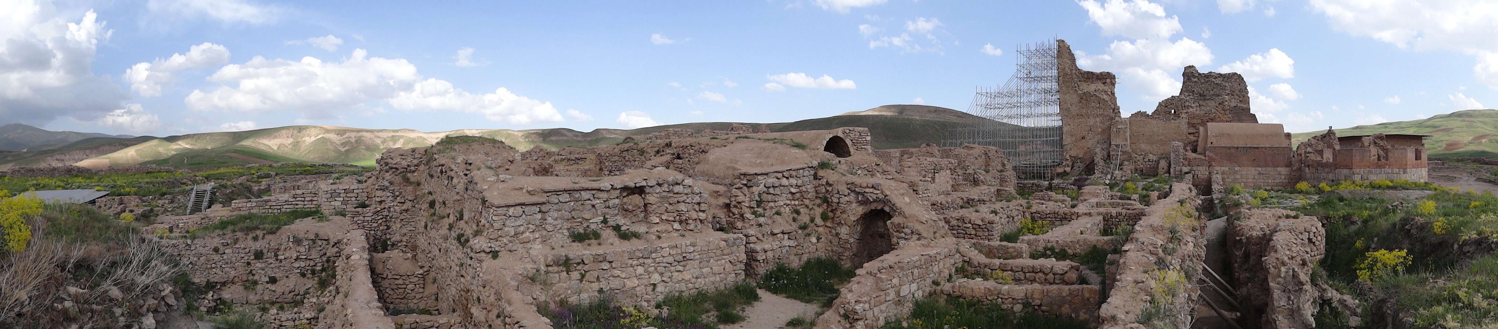 Panorama of Ruins at Takht-e Soleiman - Western Iran